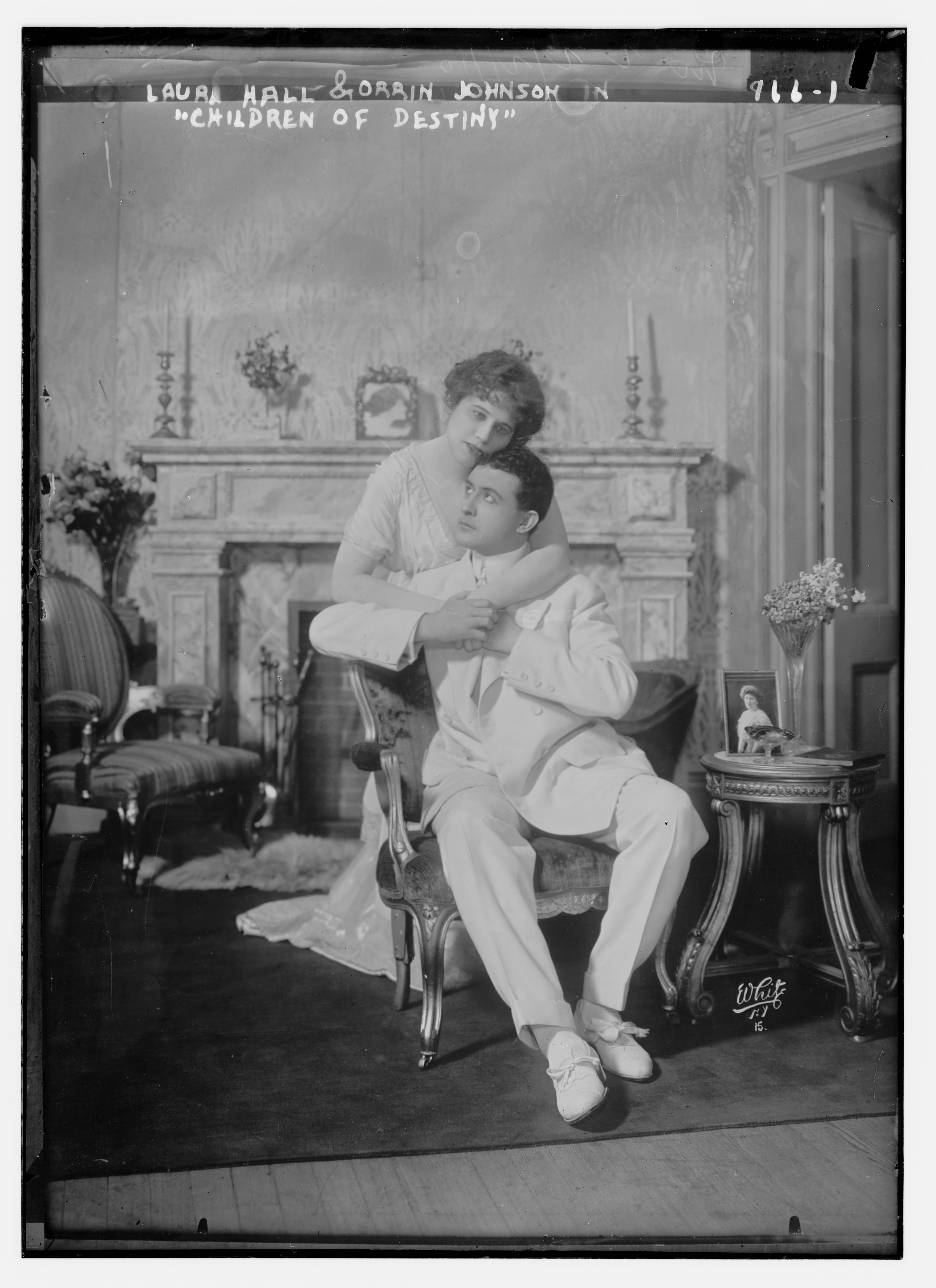 Title: Laura Hall and Orrin Johnson embracing, scene form Children of Destiny, White Photo / White Photo Abstract/medium: 1 negative : glass ; 5 x 7 in. or smaller.